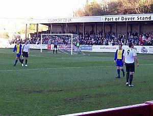 Dover Athletic F.C. v Croydon Athletic F.C. on 9 February 2008